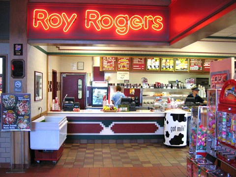 One of the Roy Rogers franchises currently operating at Road #3, Route 5S, NY State Thruway, Milepost 210E, Little Falls, NY, 13385 Tel: 315-823-4350.